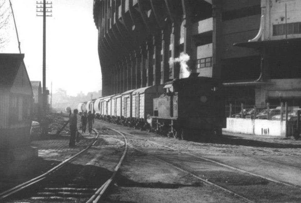 General Brown railway station. The line had been originally operated by the Buenos Aires and Ensenada Port Railway. In 1899 it was took over by the Buenos Aires Great Southern Railway. Original cabins (on the left) and Boca Juniors stadium, La Bombonera (on the background) are also displayed.